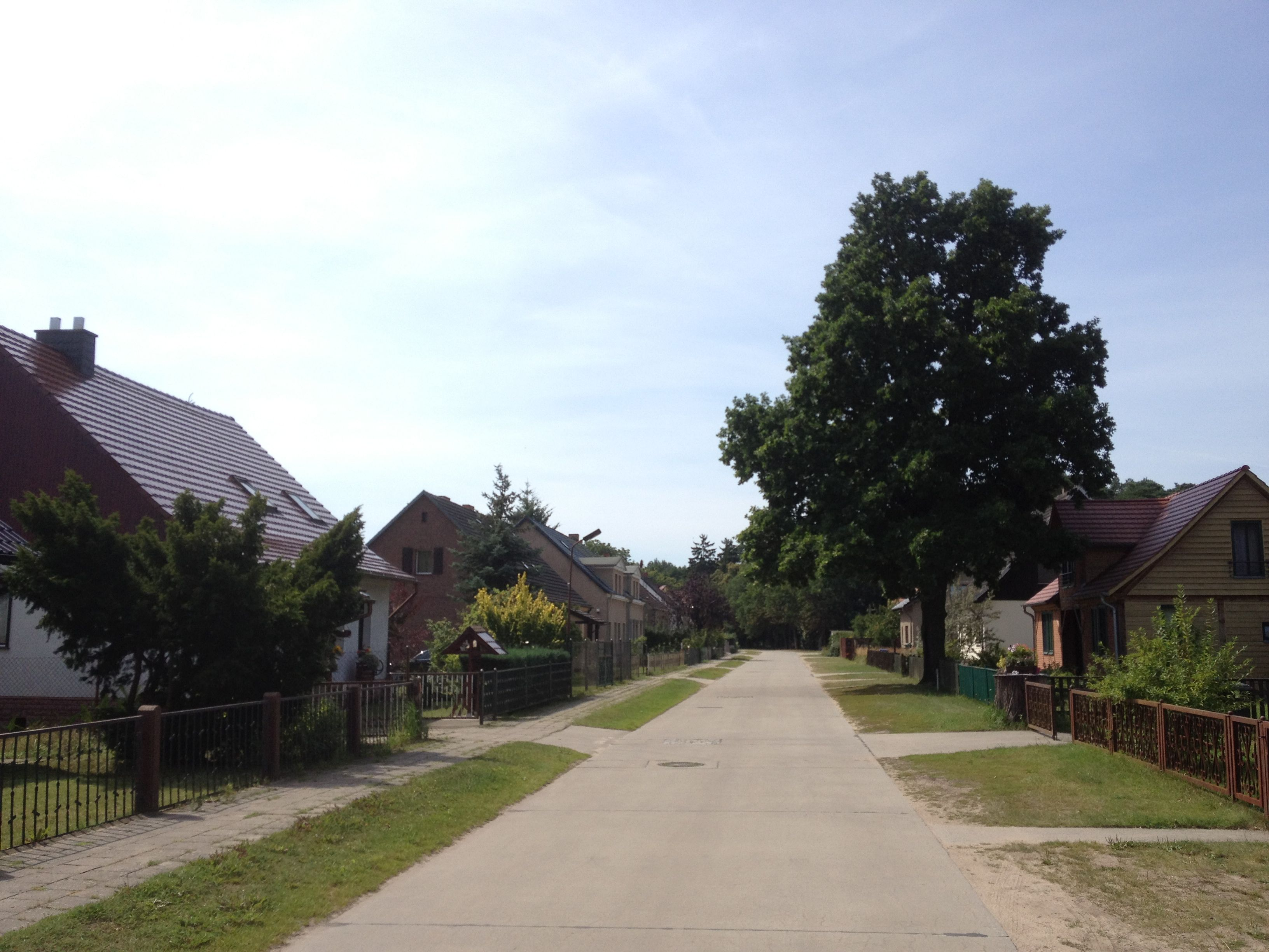 Dorfstraße in Groß Väter